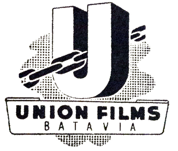 Logo for the Dutch East Indies production house Union Films, taken from advertising material for their films Soeara Berbisa and Mega Mendoeng